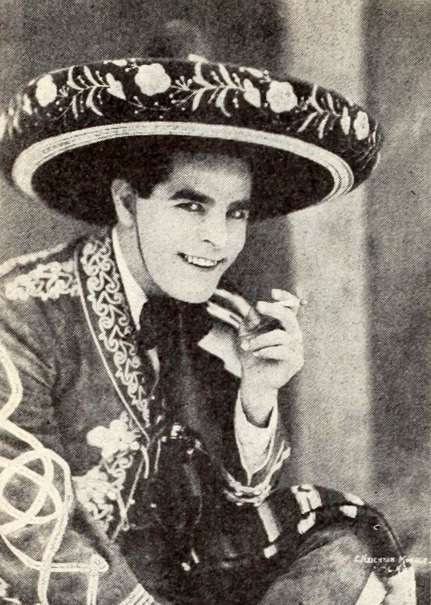 Promotional photo